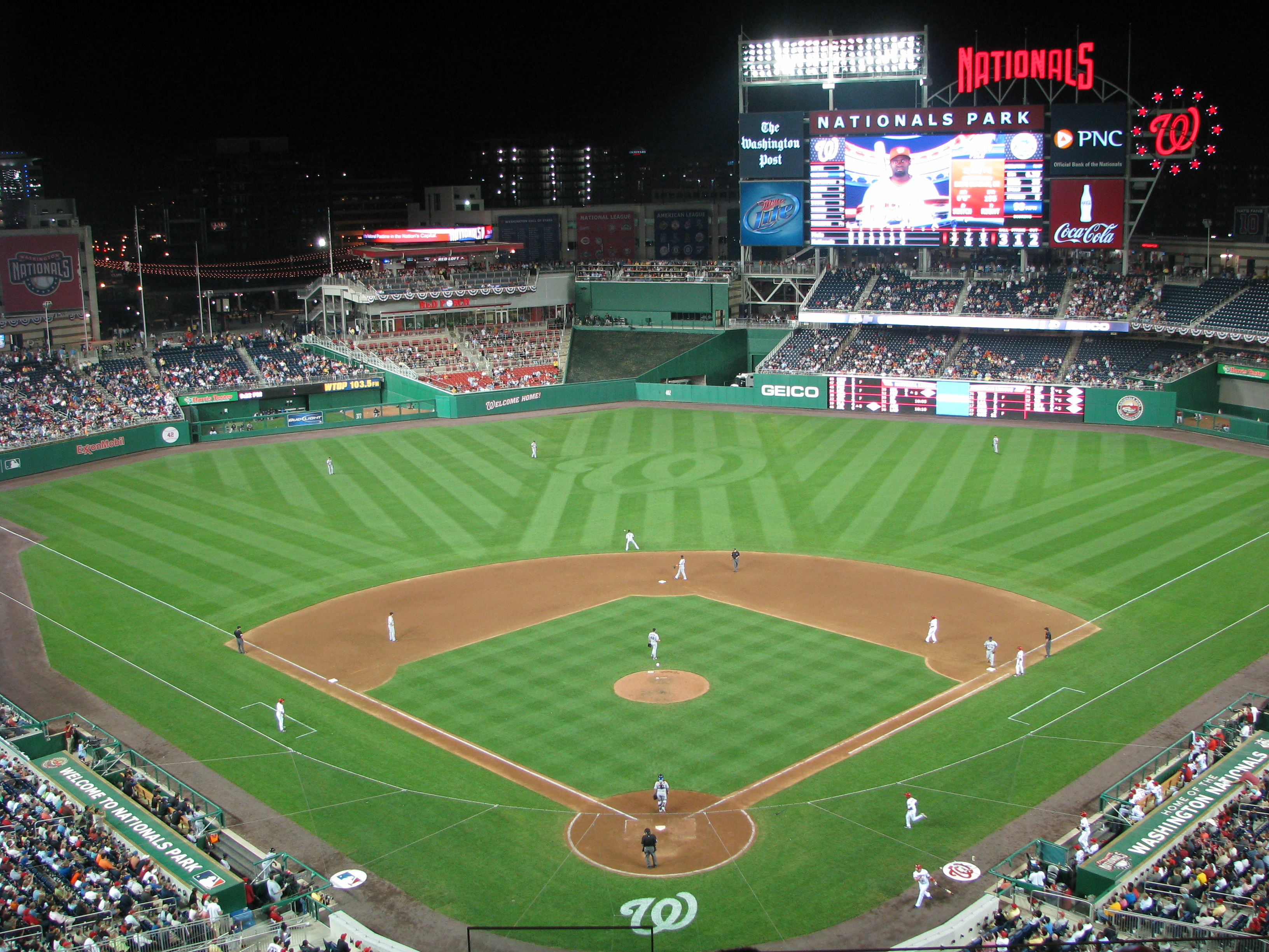 Nationals Park, 4/24/08. Taken by Dan M. 15:49, 26 April 2008 . . Nymfan9 . . 3,264×2,448 (2.55 MB)